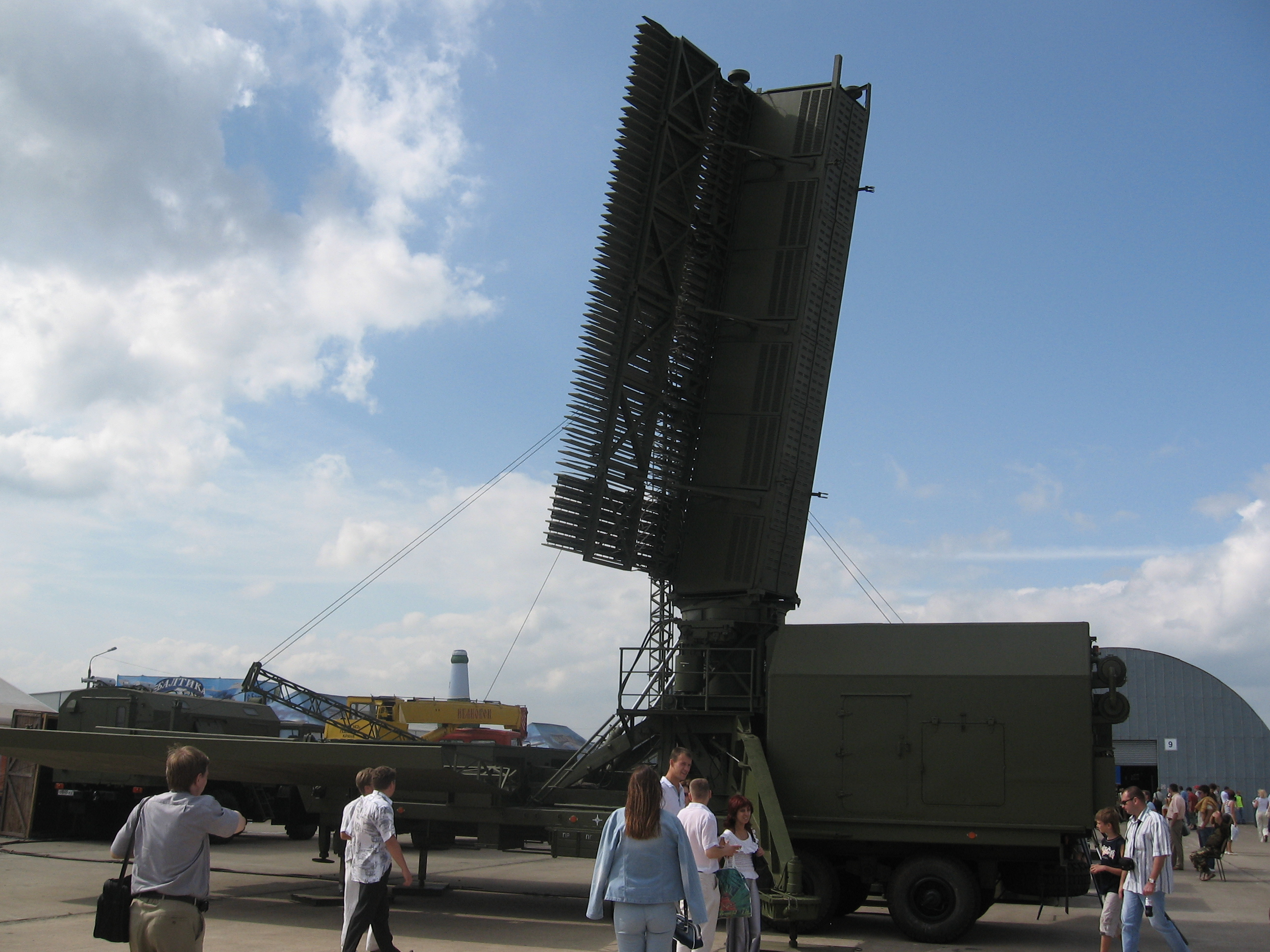 Protivnik-GE